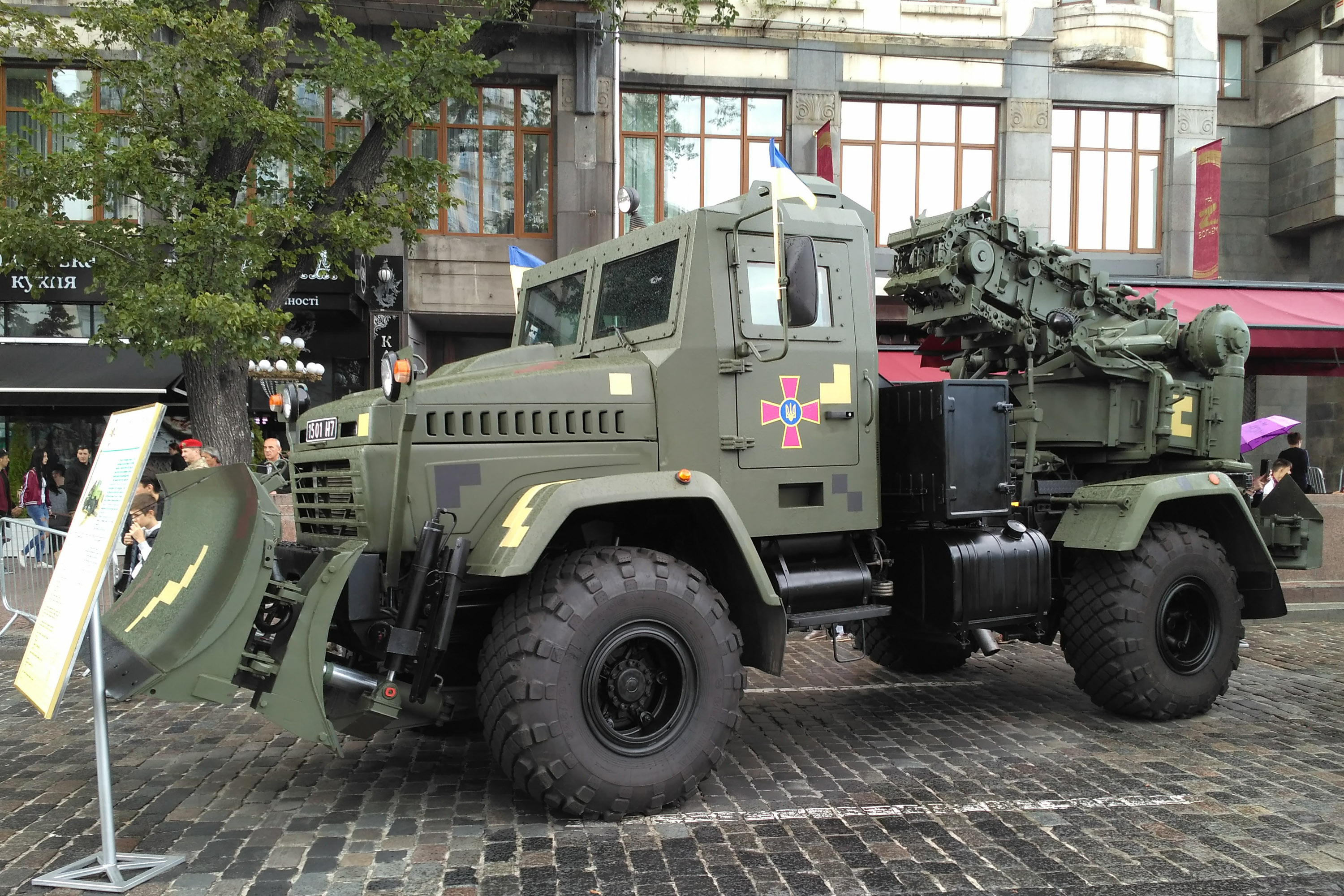 PZM-3 engineering vehicle, Kyiv 2017